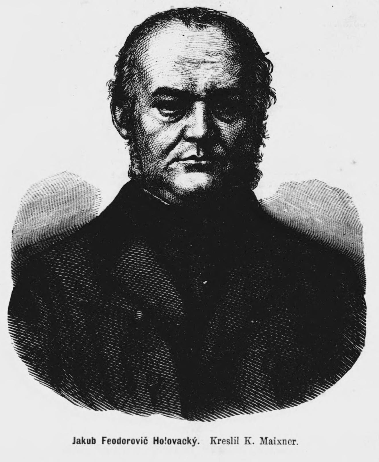 Portrait of Yakiv Holovatsky (Ukrainian: Яків Федорович Головацький; 1814 - 1888), Ukrainian historian and poet